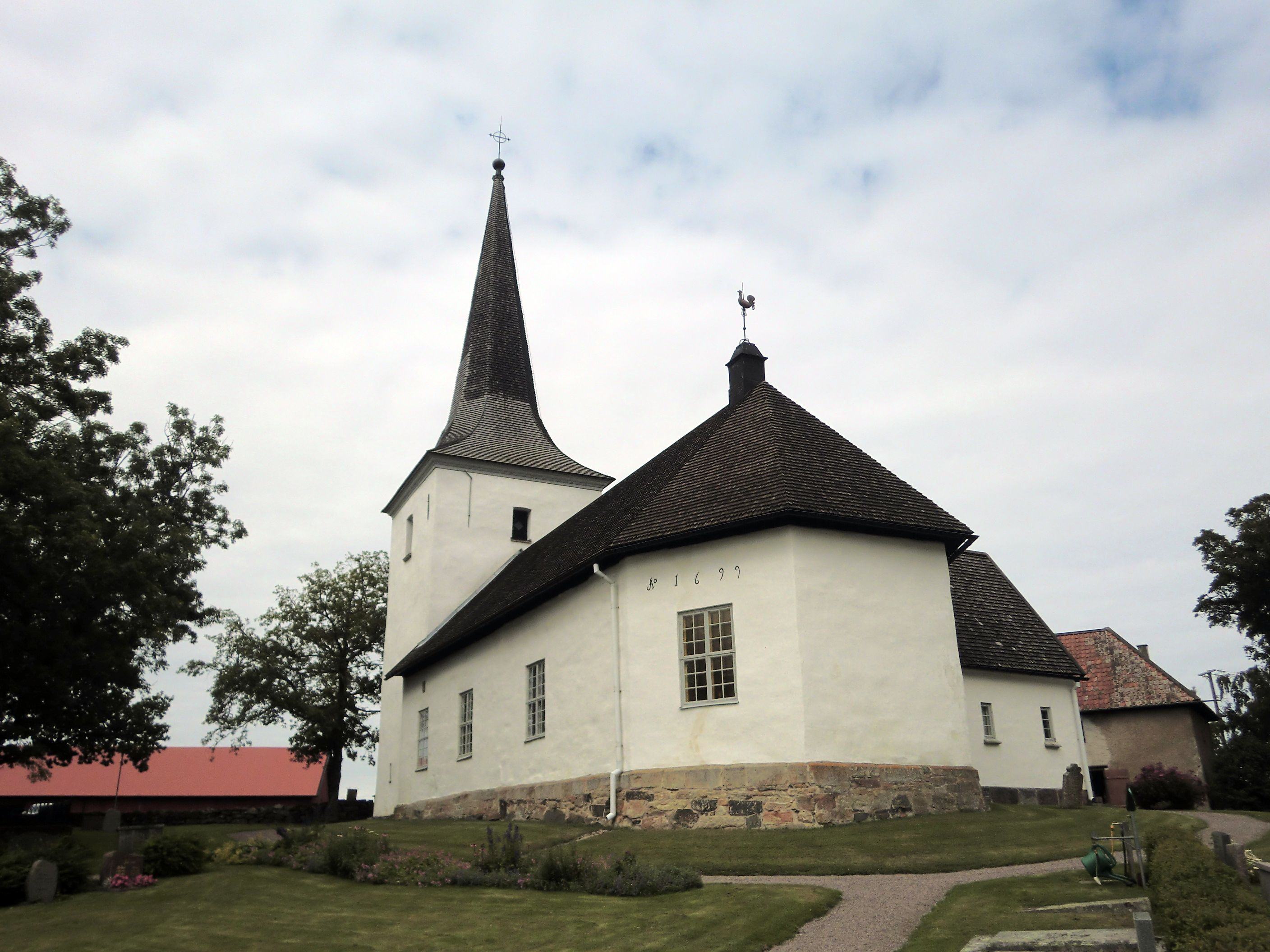 Rackeby church close to Lidköping, Sweden